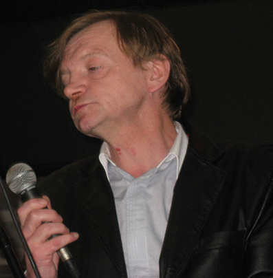 Mark E. Smith at The Fall gig at art show - Bloomberg Space, London